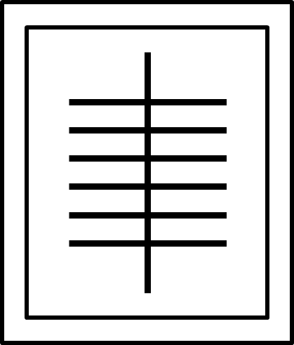 The scoring scheme in the old north German card game of Bruus. The lines are chalked on a slate.